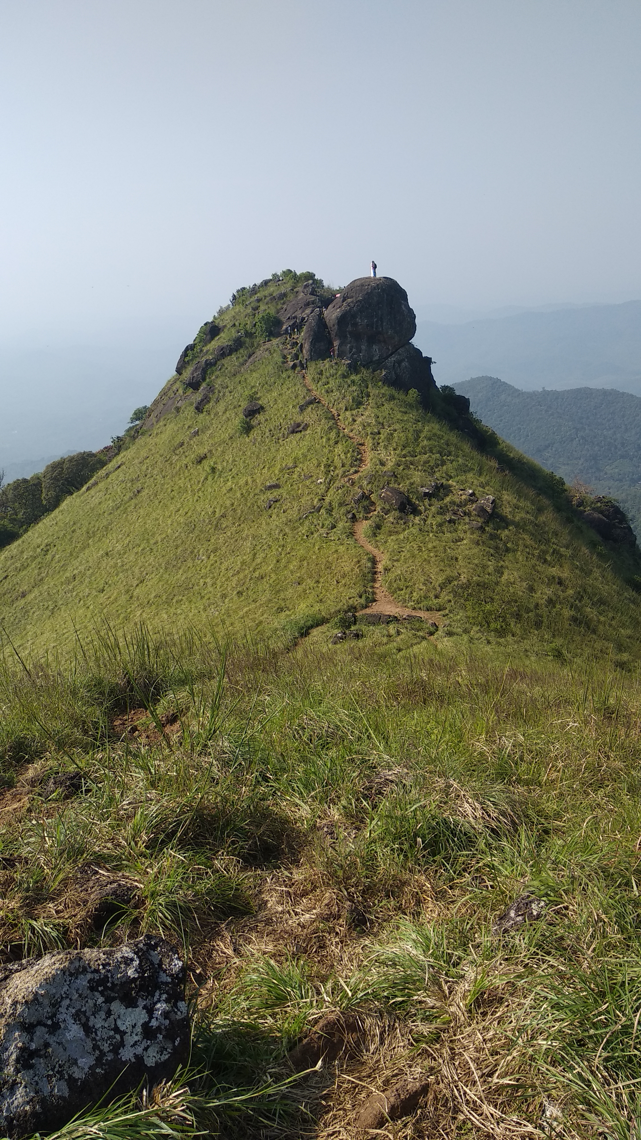 Ranipuram Manimala top view